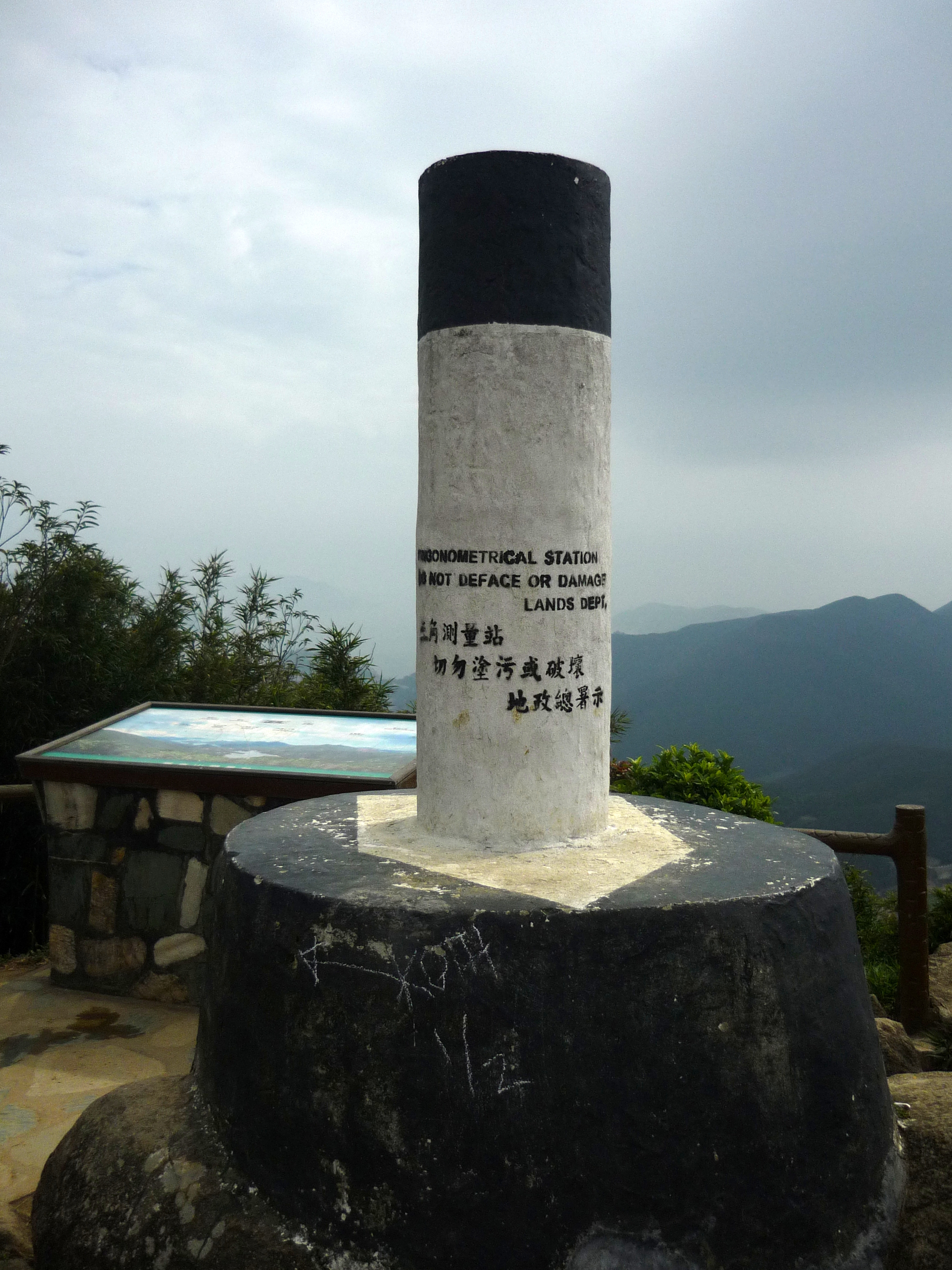 The Trigonemtric Station at Mount Butler